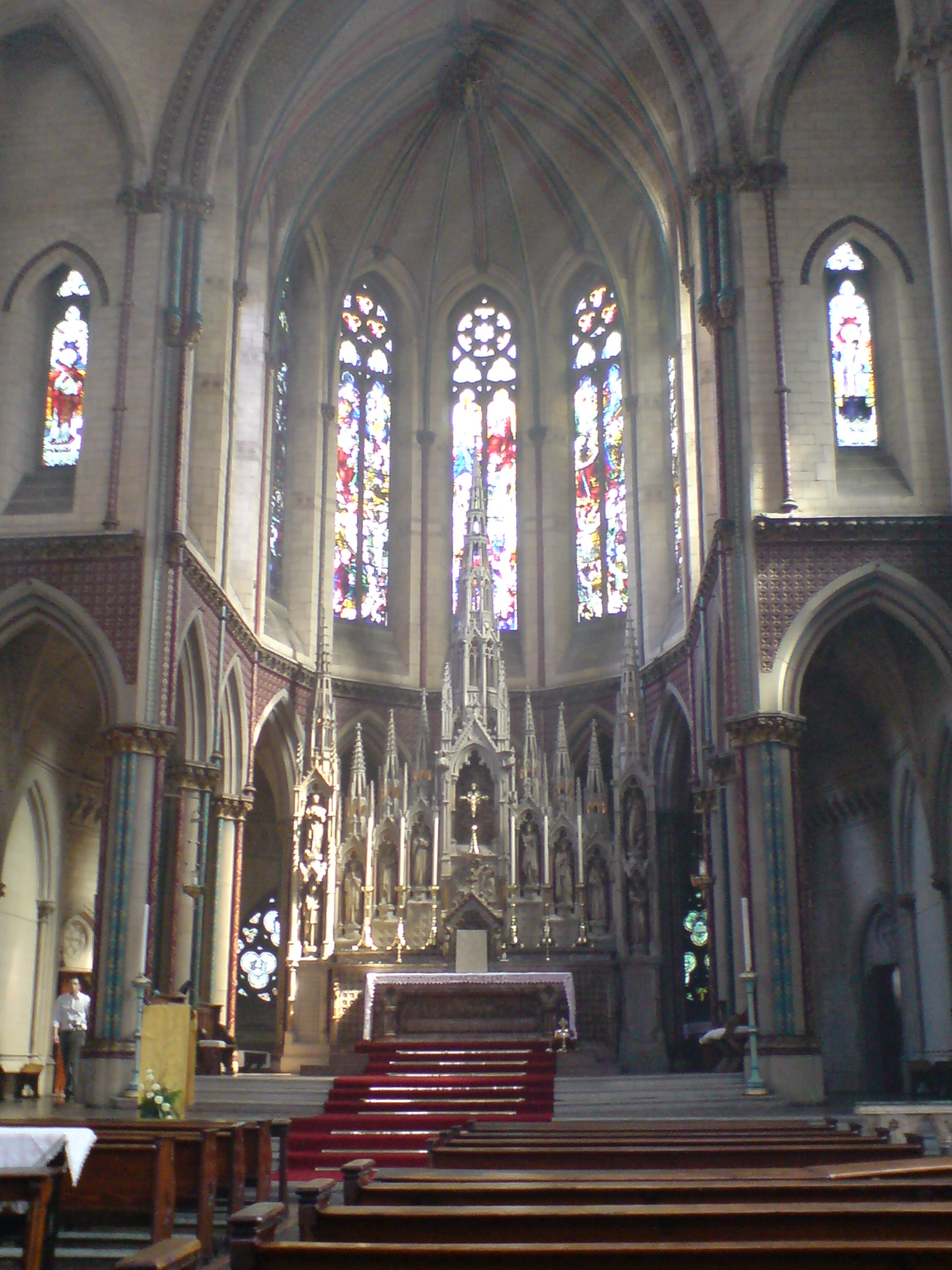 Main altar, Church of the Holy Name of Jesus, Manchester.